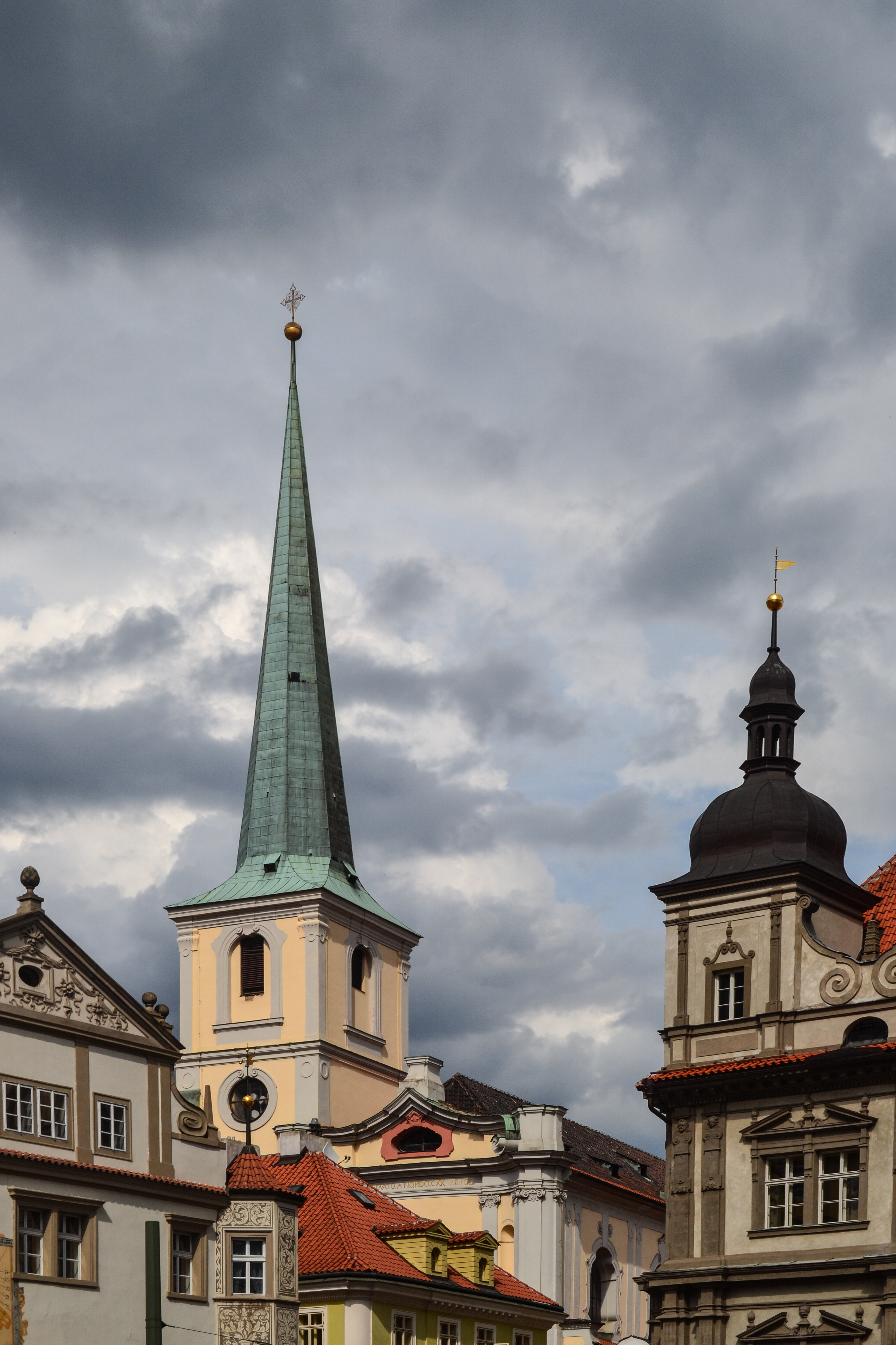 The bell tower of Saint Thomas' Church, as seen from a nearby square.